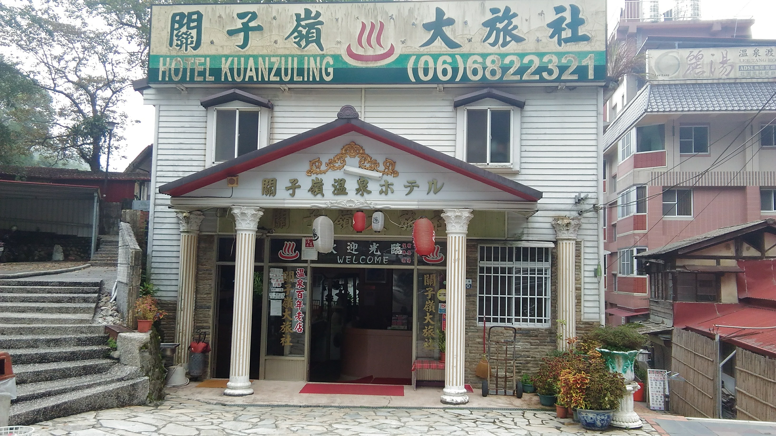 Hotel Kuanzuling.